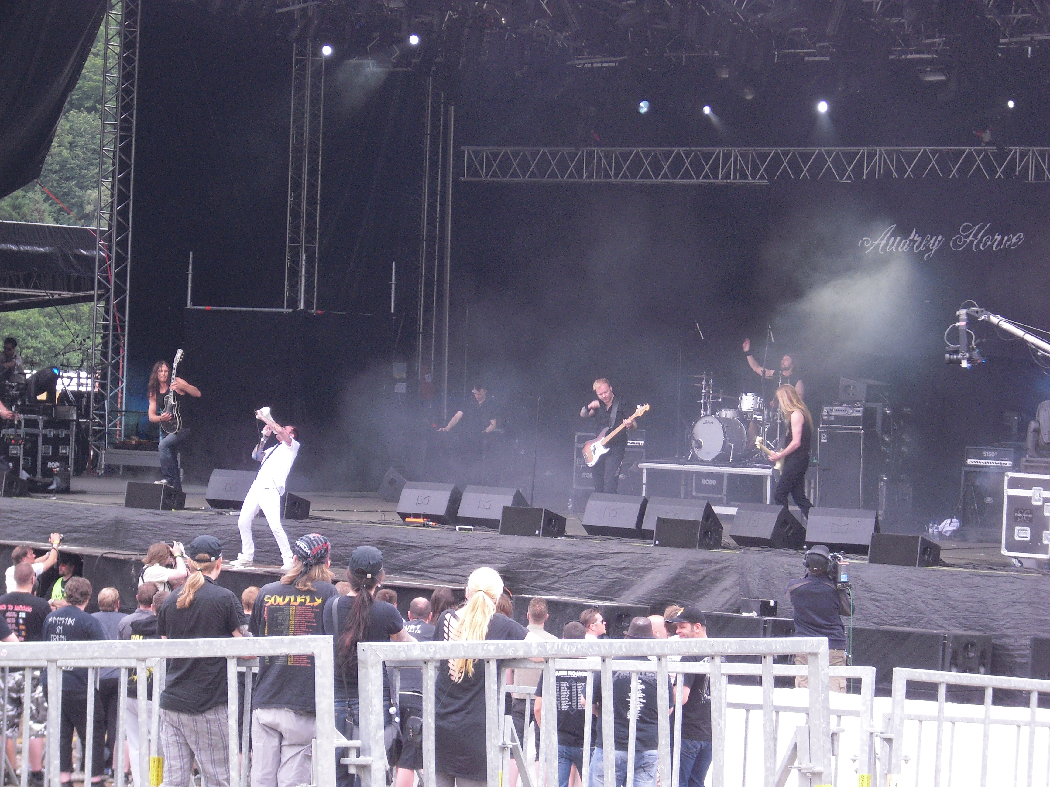 Audrey Horne performing live at Norway Rock Festival in July 2010